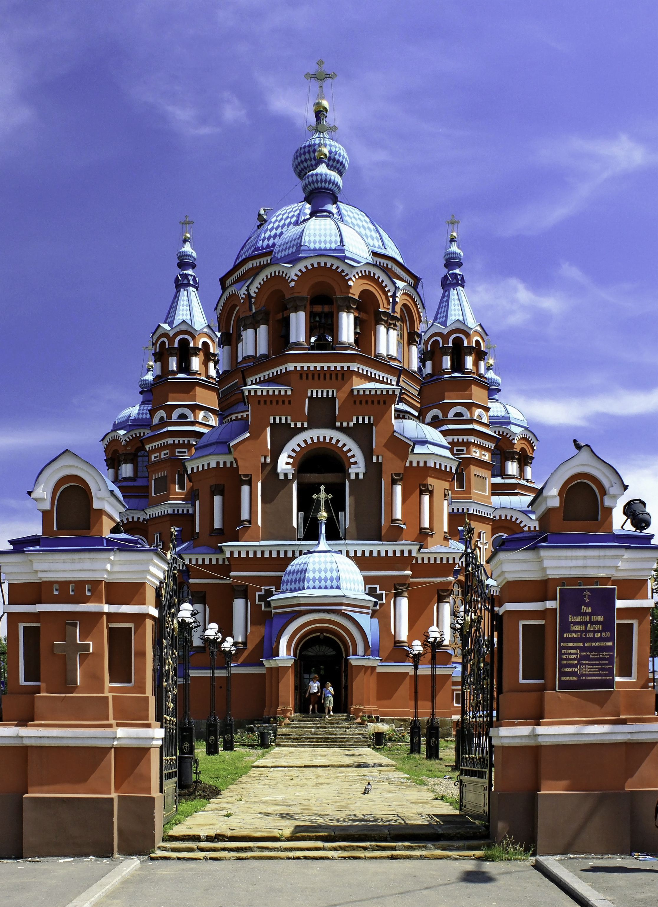 Our Lady of Kazan Church. Irkutsk, Russia.